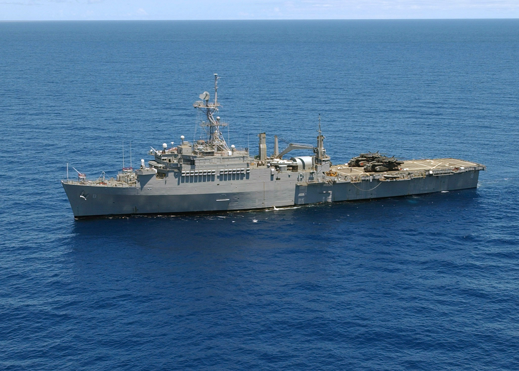 Pacific Ocean (July 6, 2004) – The amphibious transport dock USS Dubuque (LPD 8) steams to its position during exercise Rim of the Pacific 2004. RIMPAC is the largest international maritime exercise in the waters around the Hawaiian Islands. This years exercise includes seven participating nations; Australia, Canada, Chile, Japan, South Korea, the United Kingdom and the United States. RIMPAC is intended to enhance the tactical proficiency of participating units in a wide array of combined operations at sea, while enhancing stability in the Pacific Rim region. U.S. Navy photo by Photographer’s Mate 1st Class Michelle R. Hammond (RELEASED) For more information go to: /